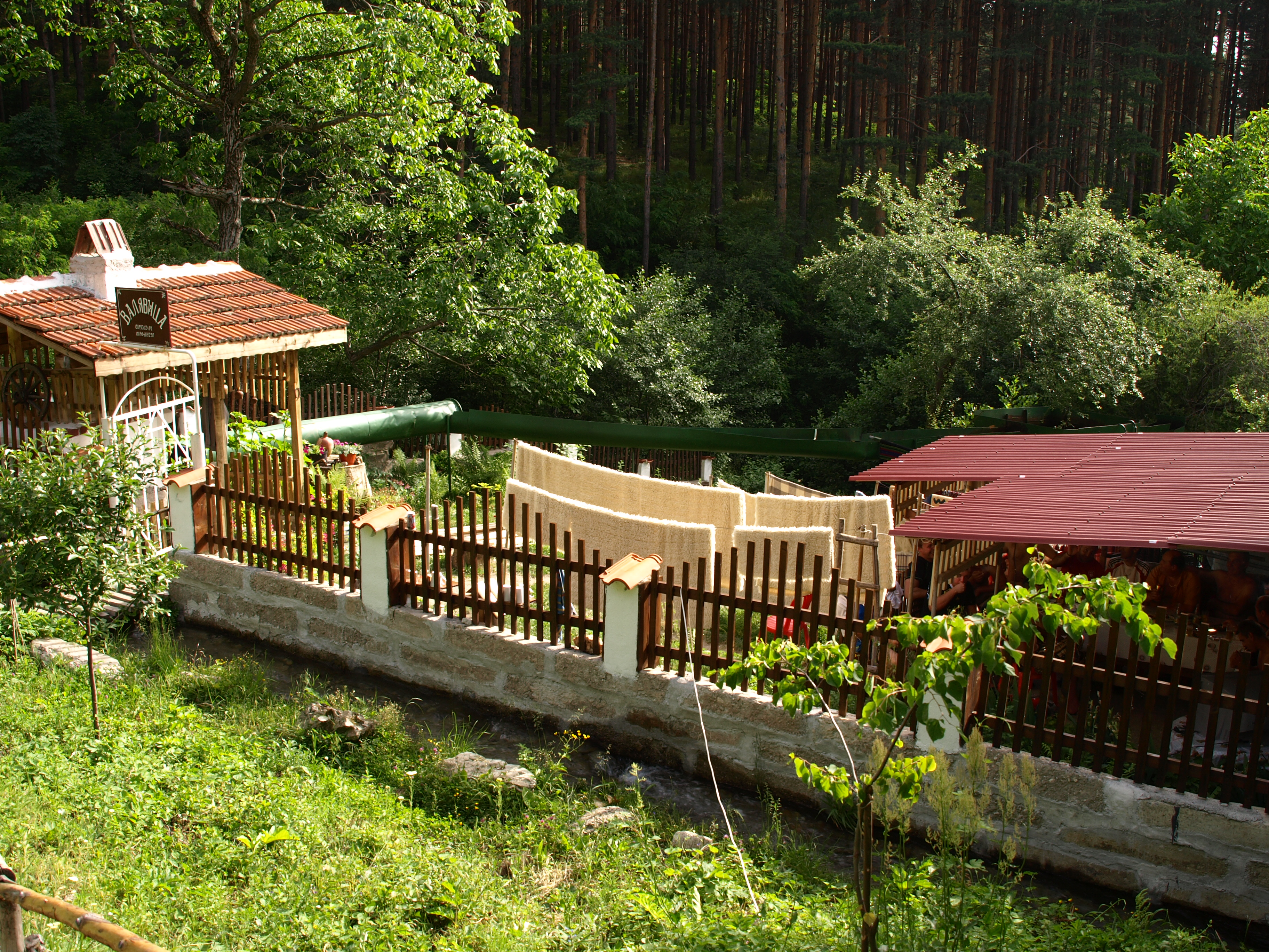 Тenterground at Goritsa Waterfall fulling mill, Rila National Park